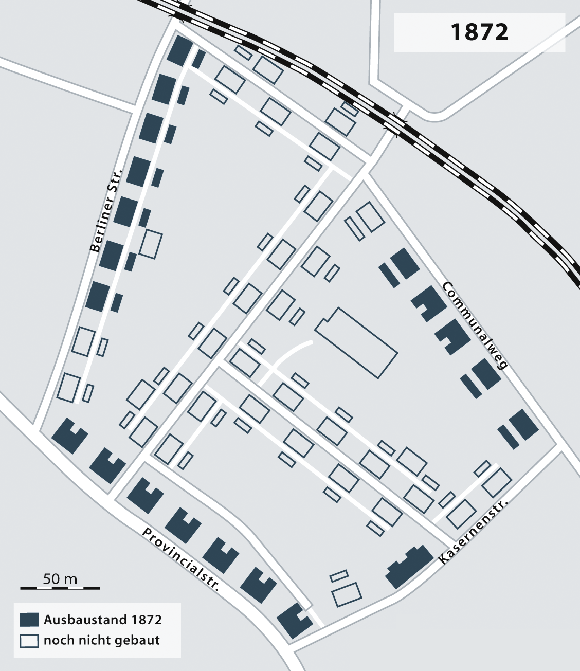 Siedlung Eisenheim (Oberhausen, Germany) in 1872